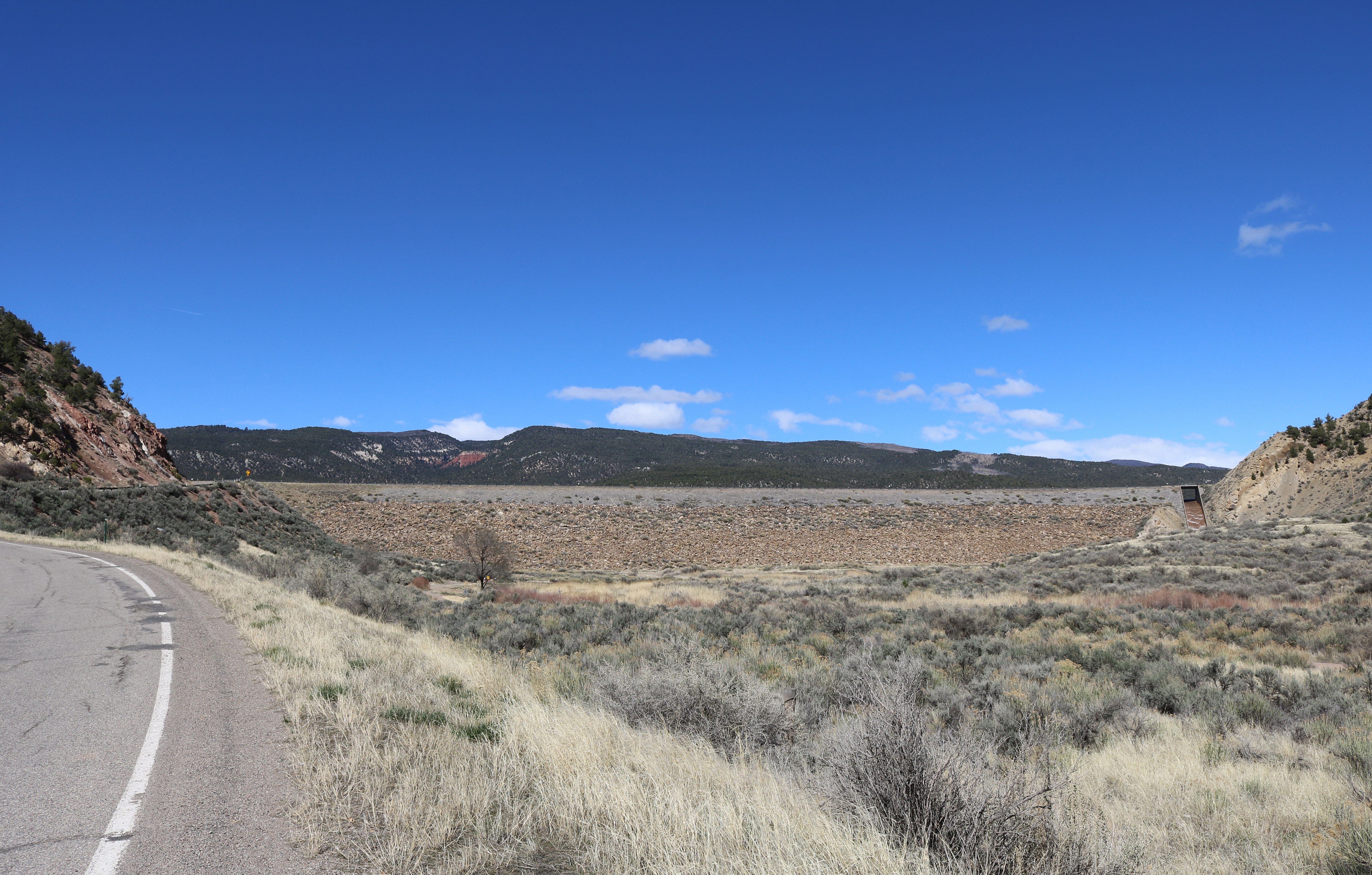 Rifle Gap Dam, located in Rifle Gap State Park in Garfield County, Colorado.